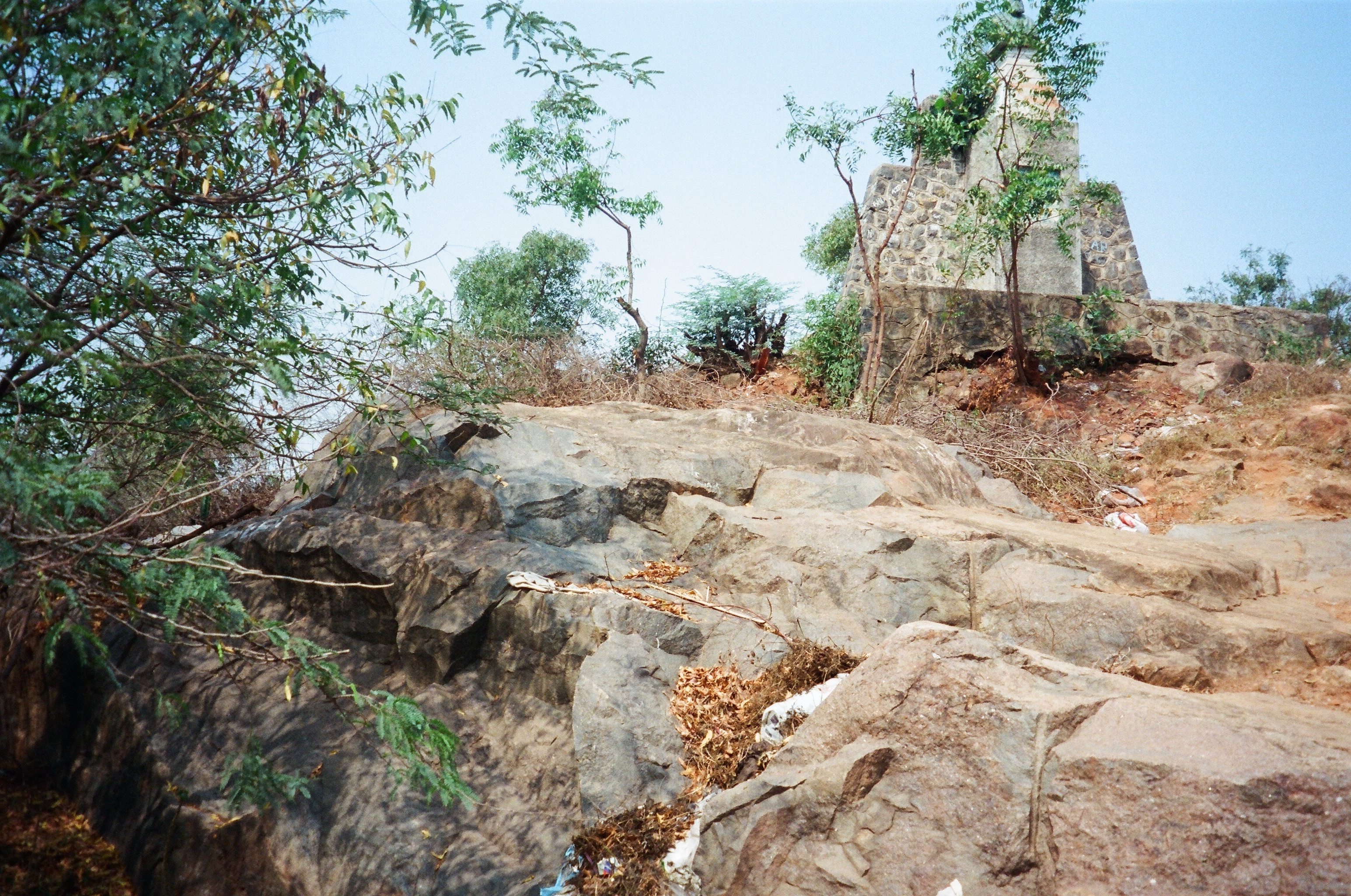 Charnocite rock exposure band - rock extratced from here for tomb of Job Charnock